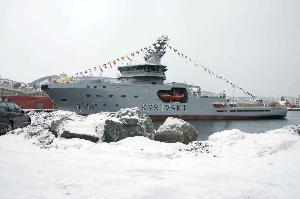 The Norwegian Coast Guard ship KV Harstad in the city of Harstad.